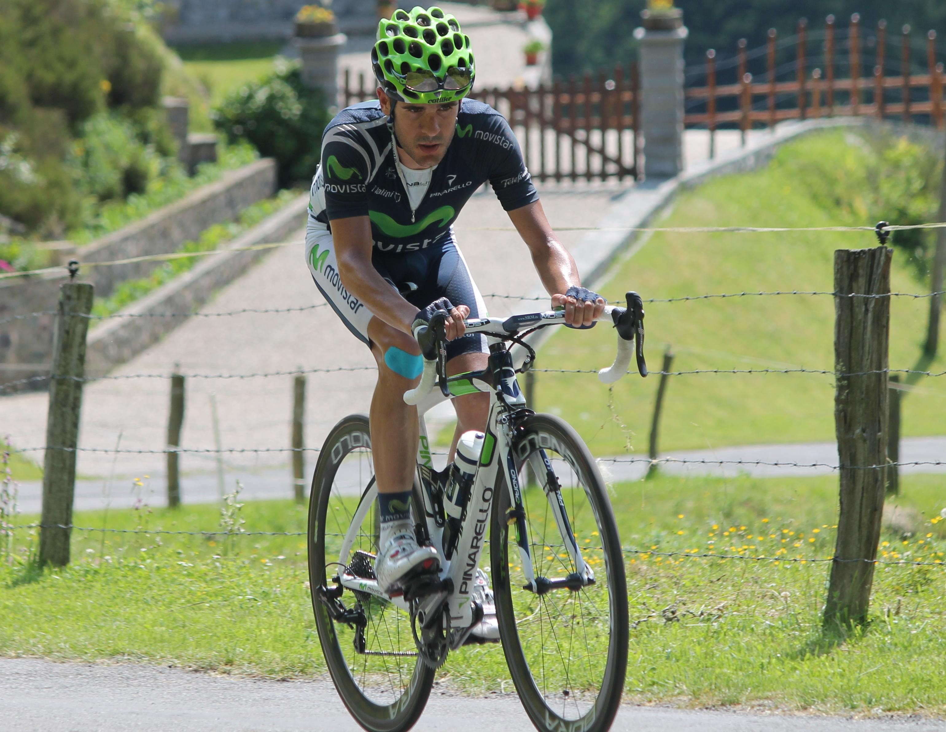 Sergio Pardille (Movistar) is setting the pace in the Col de Spandelles during the third stage of 2012 Route du Sud.